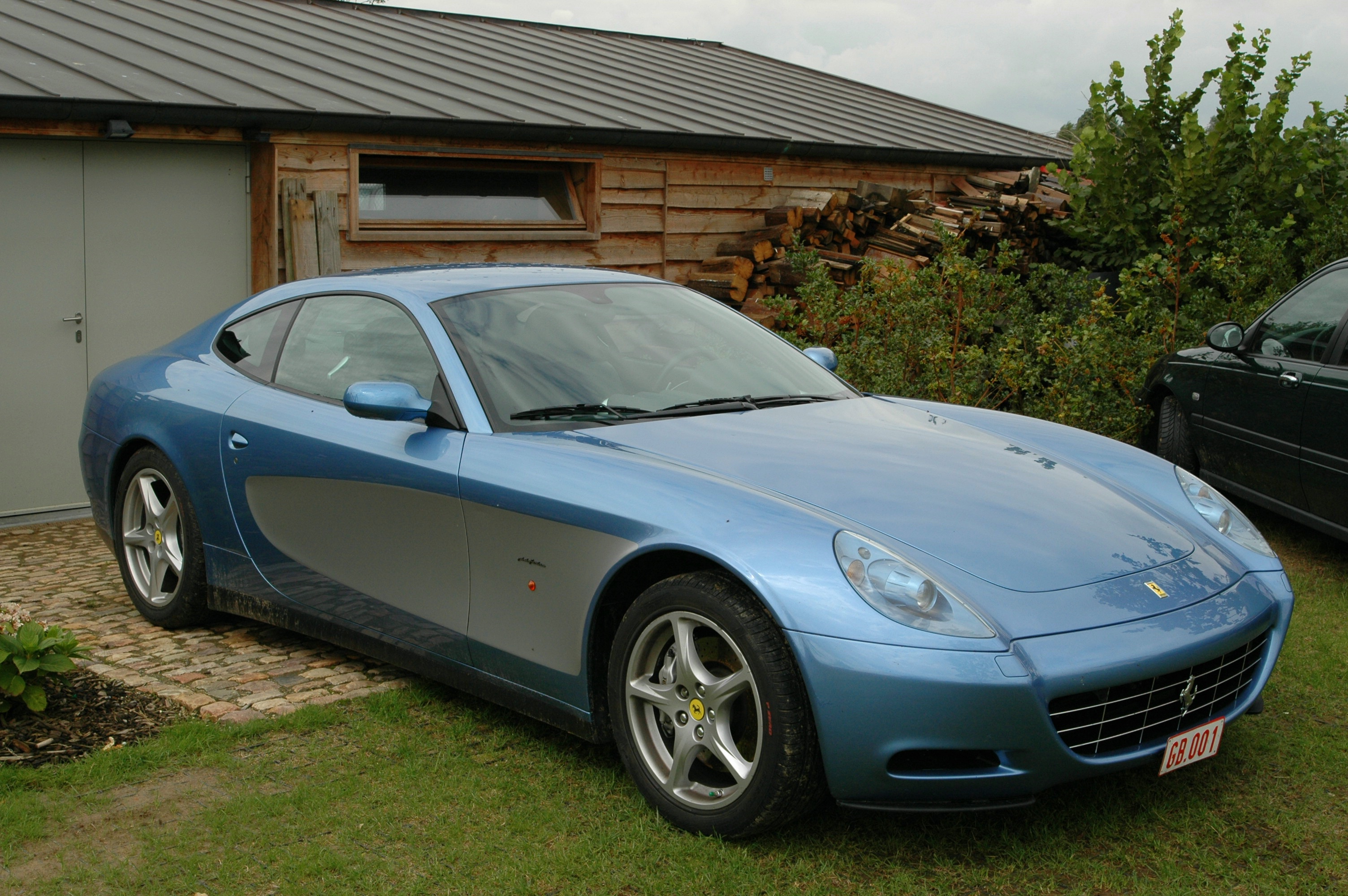 Gerard had his Scaglietti modified with a silver inset on the side. Makes me think of the 1958 Chevrolet Corvette.